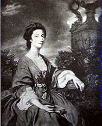 Black & white repro of Joshua Reynolds' portrait of Theodosia Hawkins Magill.